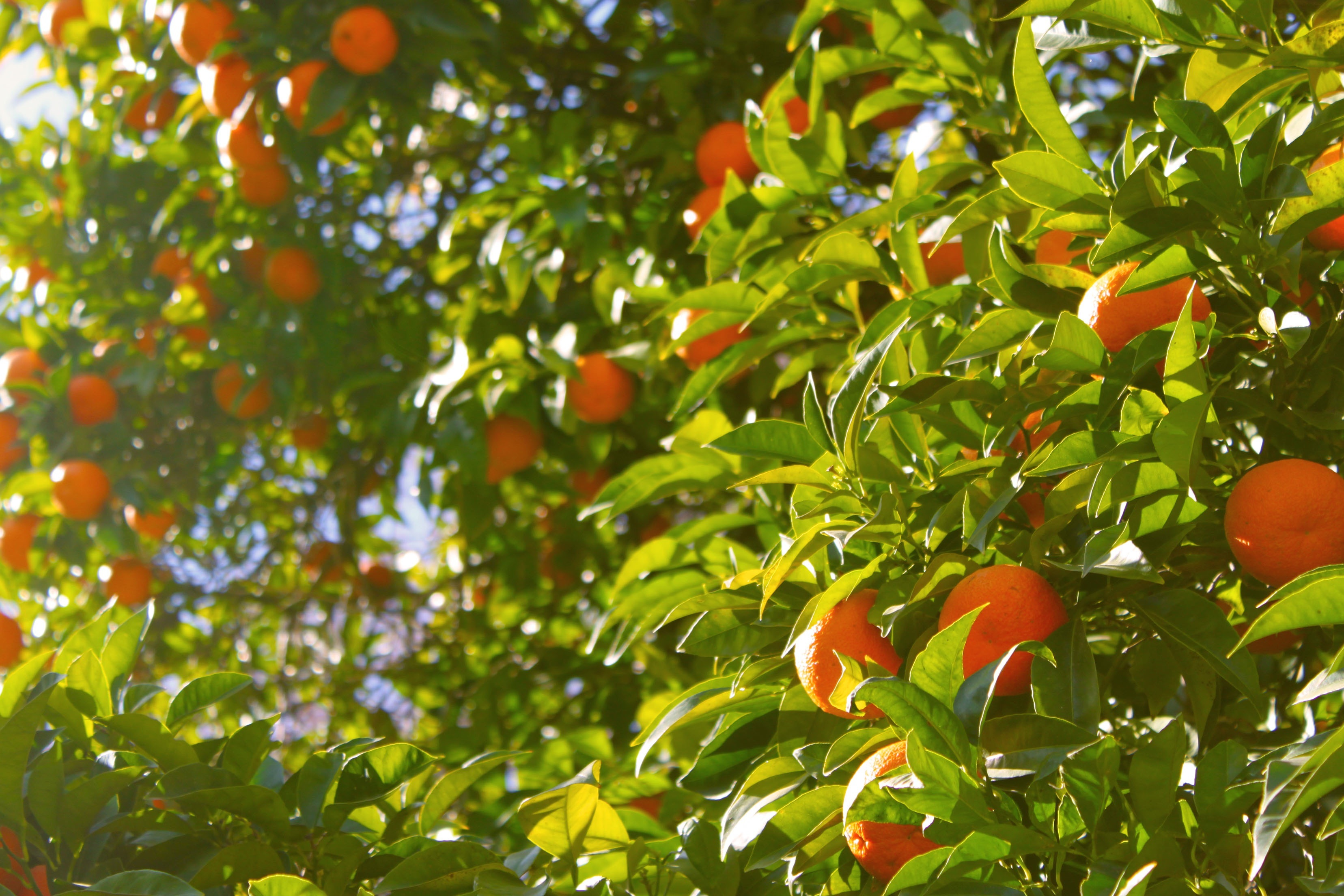 photo